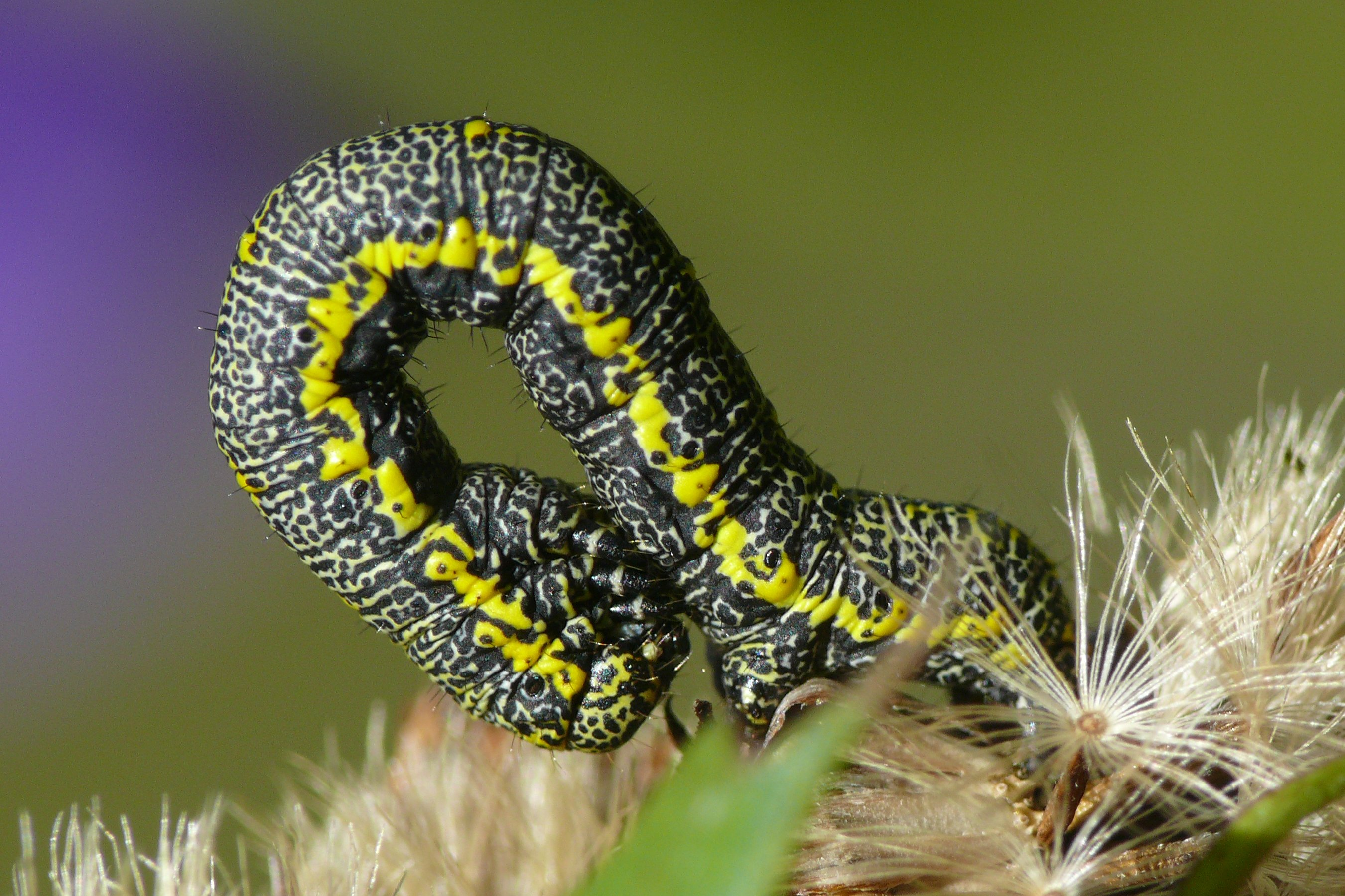 Caterpillar of Lycia alpina, Krumltal, Pinzgau, Salzburg (state), Austria, ca 1800 msm